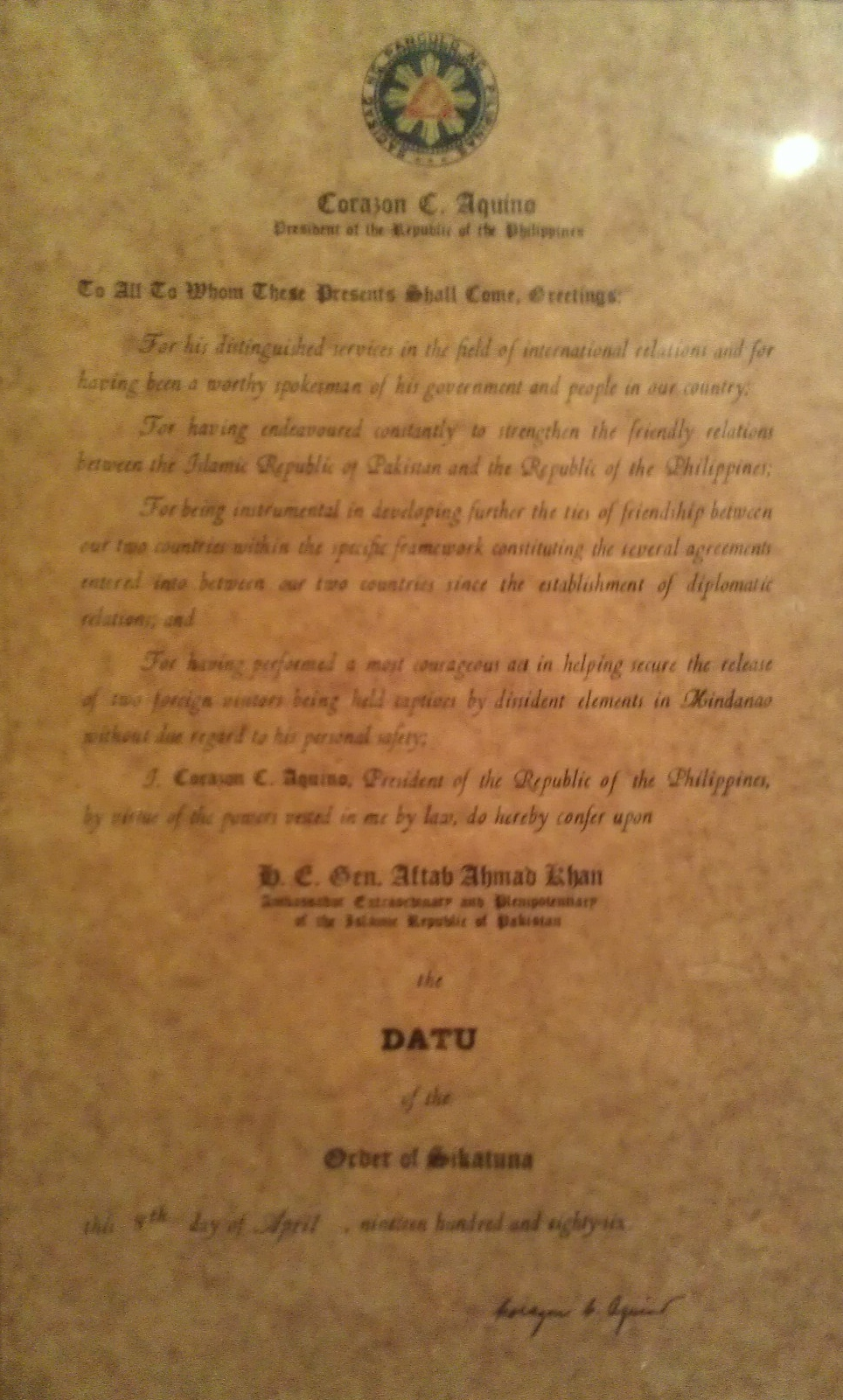 Citation of Order of Sikatuna awarded to General Aftab Ahmad Khan by President of the Philippines